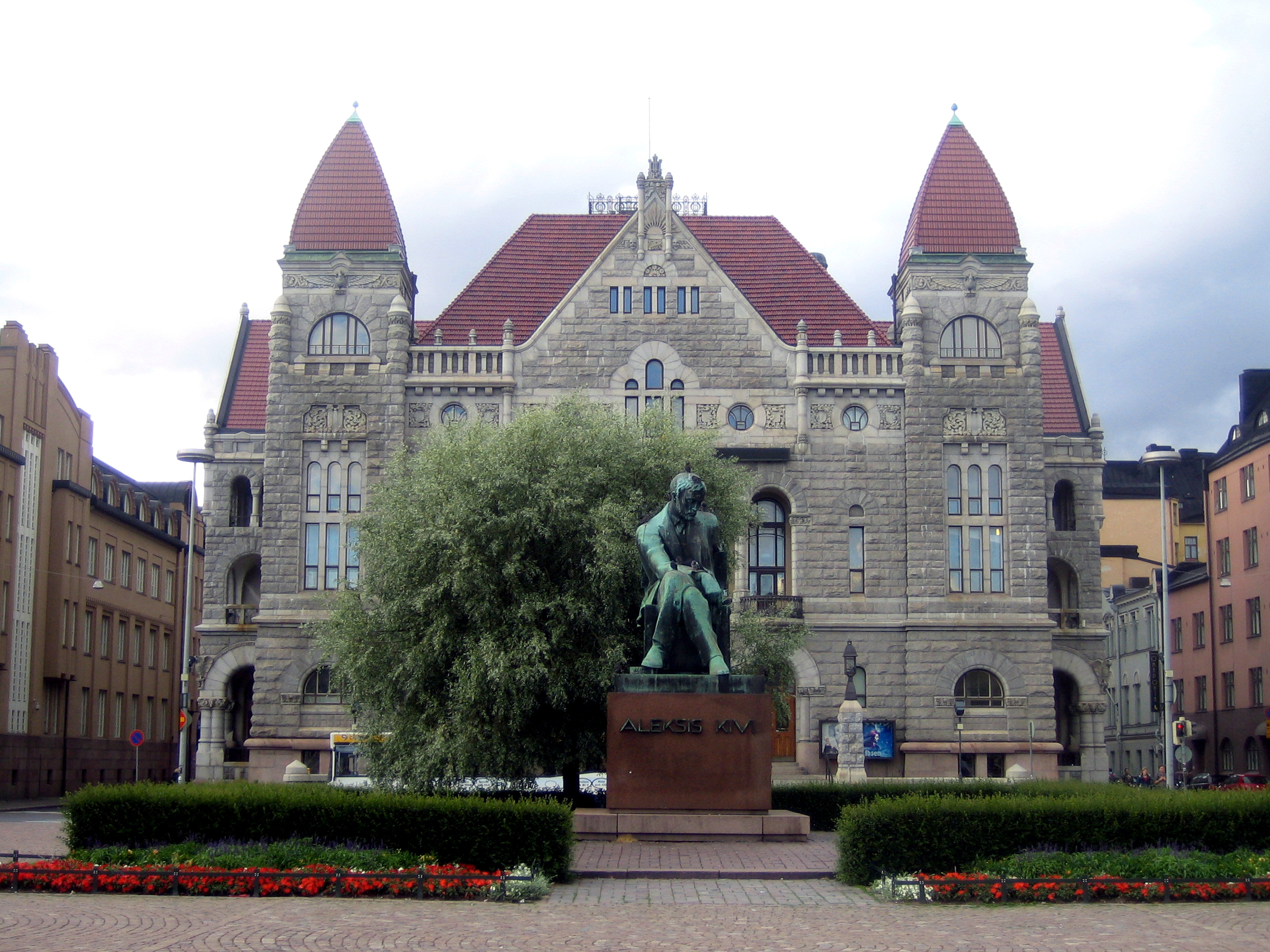 Finnish National Theatre, Helsinki, Finland. Built 1902. Architect: Onni Tarjanne. In front the statue of writer Aleksis Kivi. See also closer photo: Image:Aleksis_Kivi_statue.jpg